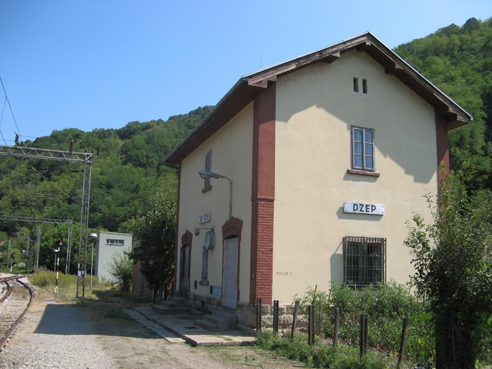 Dzep rail station Srpski (latinica): Dzep stanica